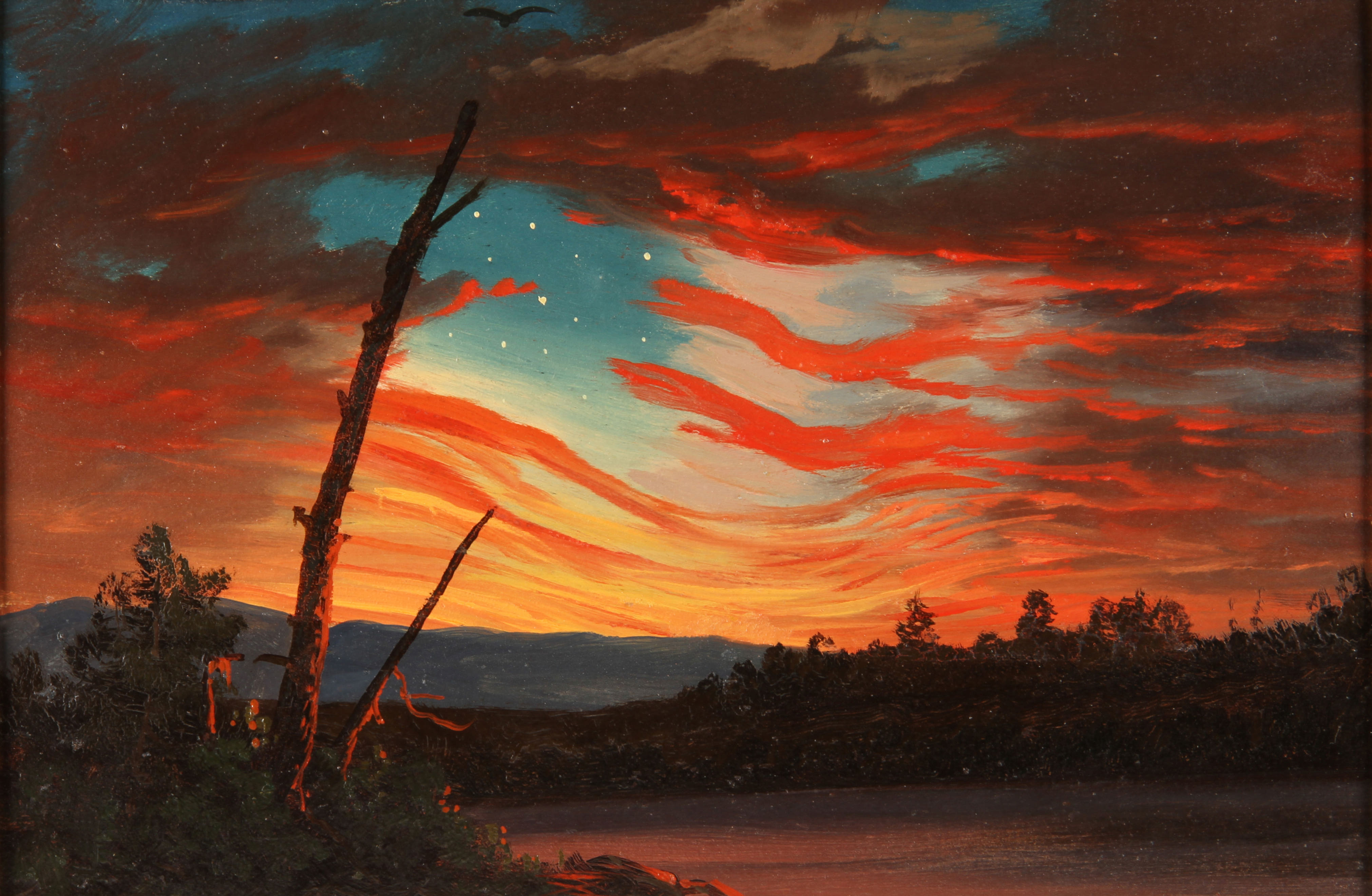 A patriot and symbolic painting after the attack on Fort Sumter during the American Civil War.